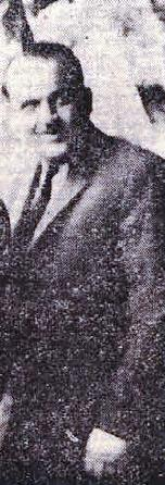 Ivan Maček-Matija (28 May 1908 – 1 April 1993)